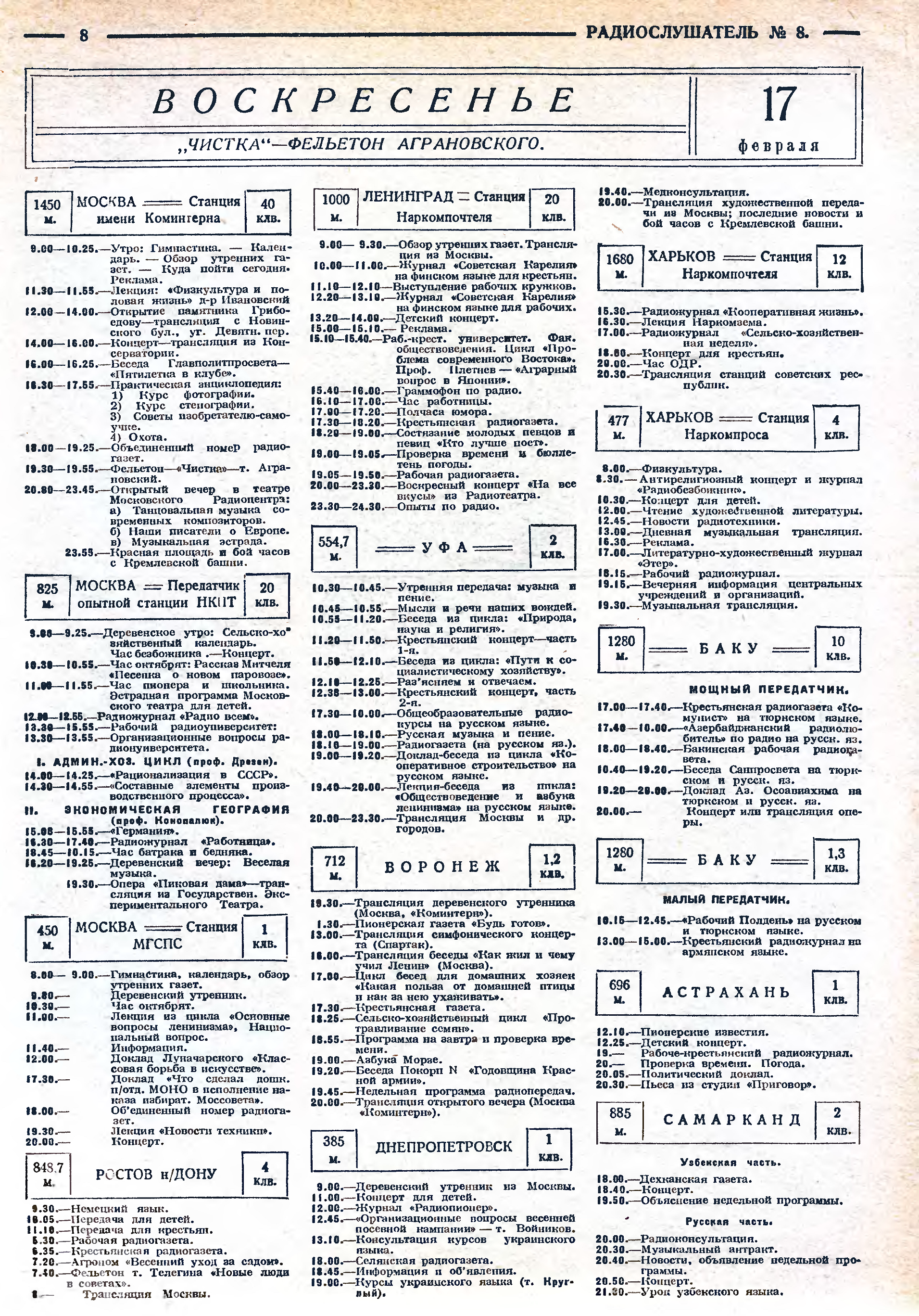 Soviet radio schedule, 17 February 1929